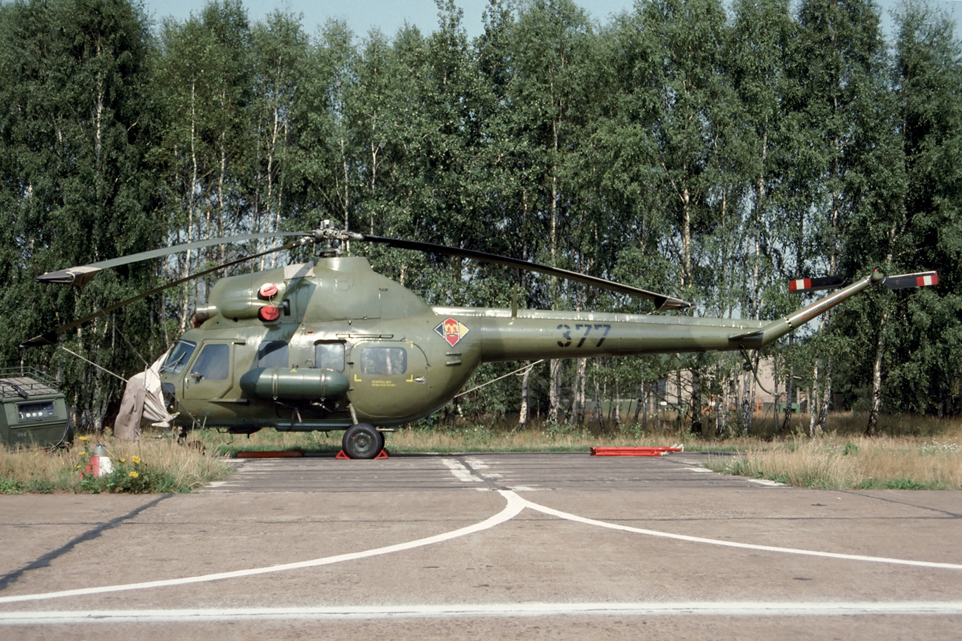 Cottbus, 28 August 1990. This Hoplite was in use with Kampf Hubschrauber Geschwader 3 (attack helicopter squadron). It became 94+81 and is now preserved in a German town called Grimmen.